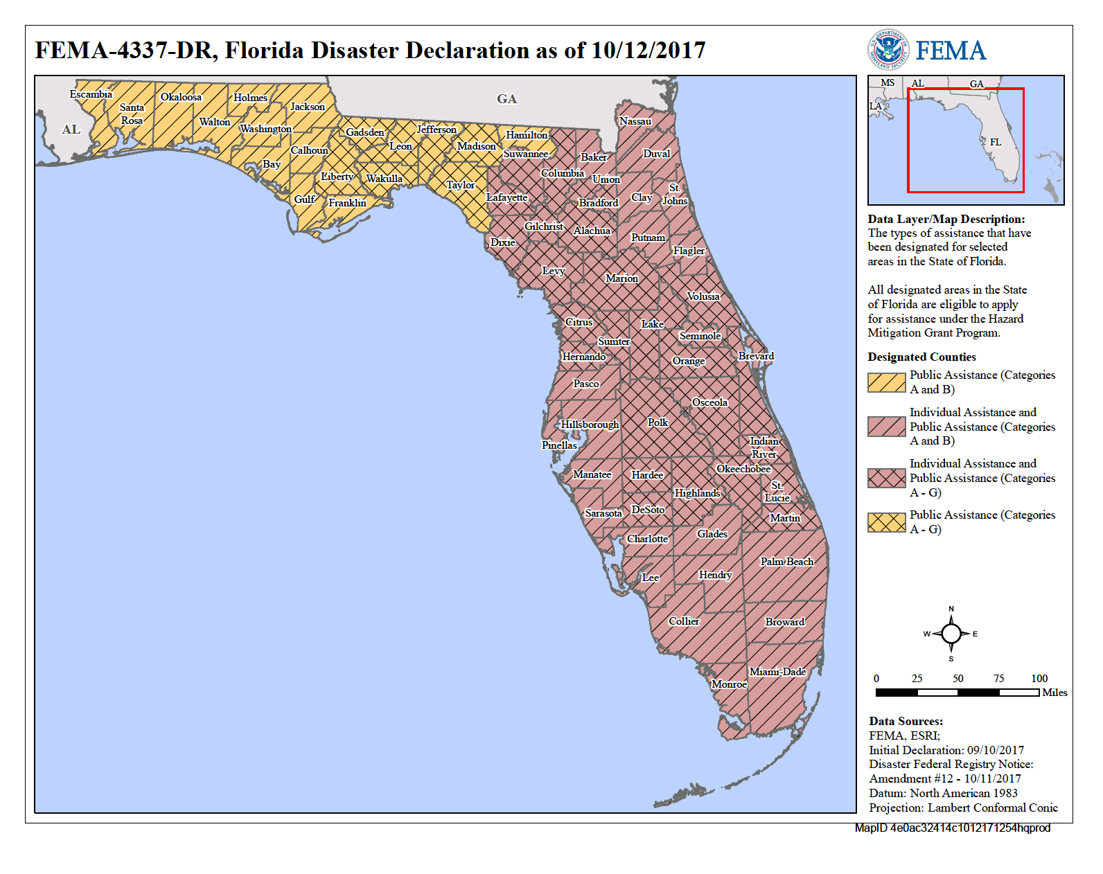 Map of types of assistance by county in Florida in the aftermath of Hurricane Irma